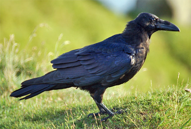 Corvus corax at the norwegian birdisland Runde.